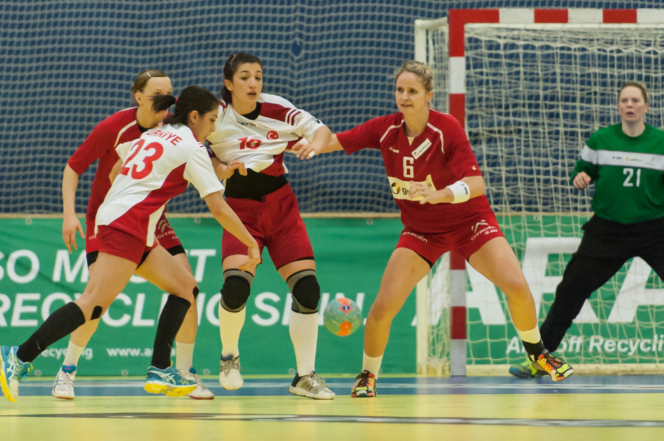 2015 World Women's Handball Championship Qualification 2014-12-06: Neslihan Yakupoğlu, Agne Grigaite